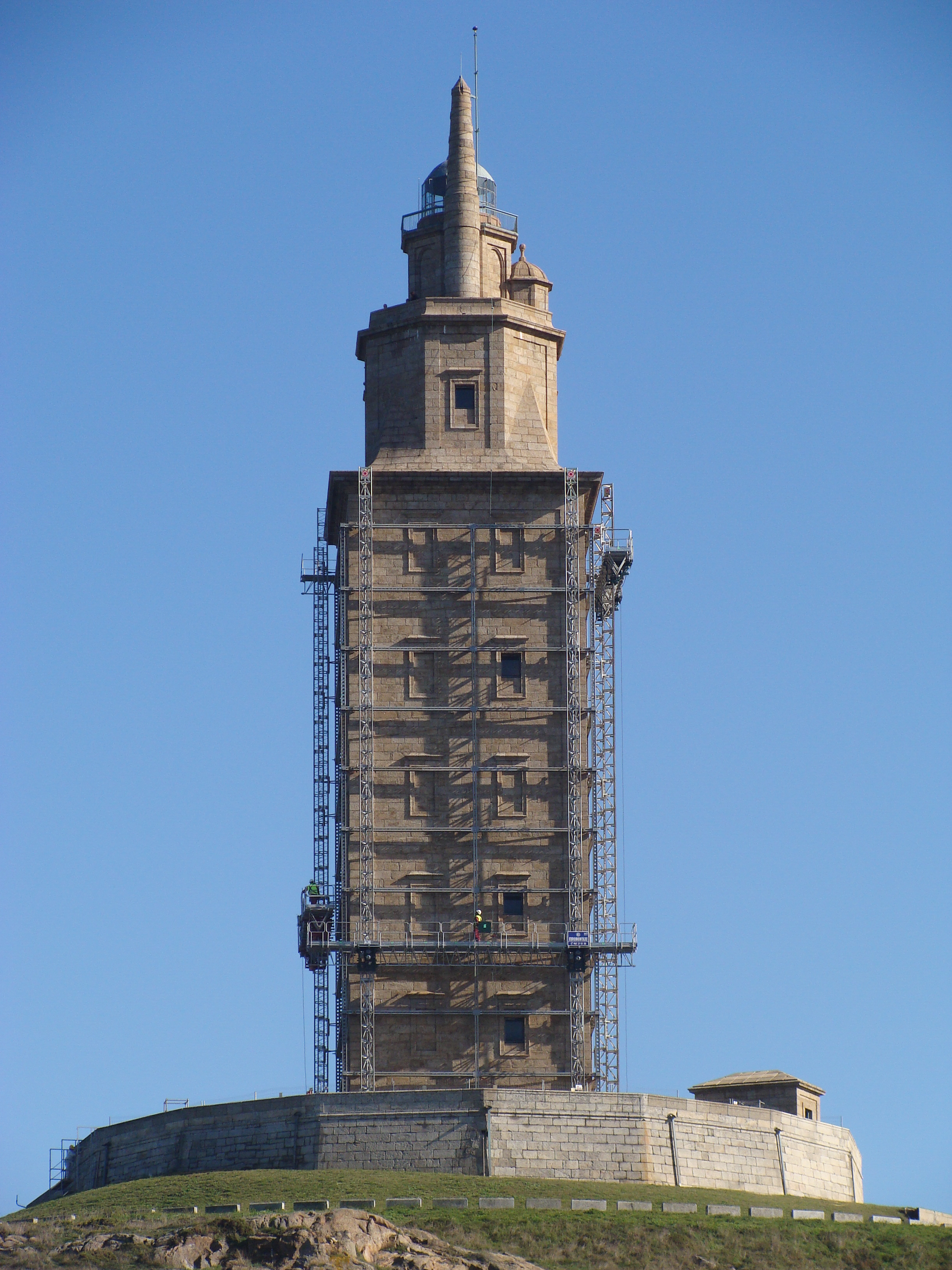 Tower of Hercules of Corunna